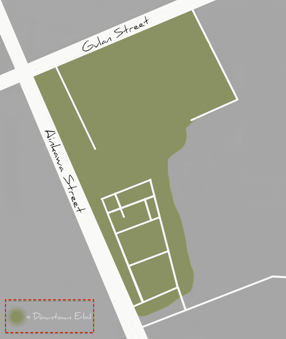 Sketch or map of Downtown Erbil.